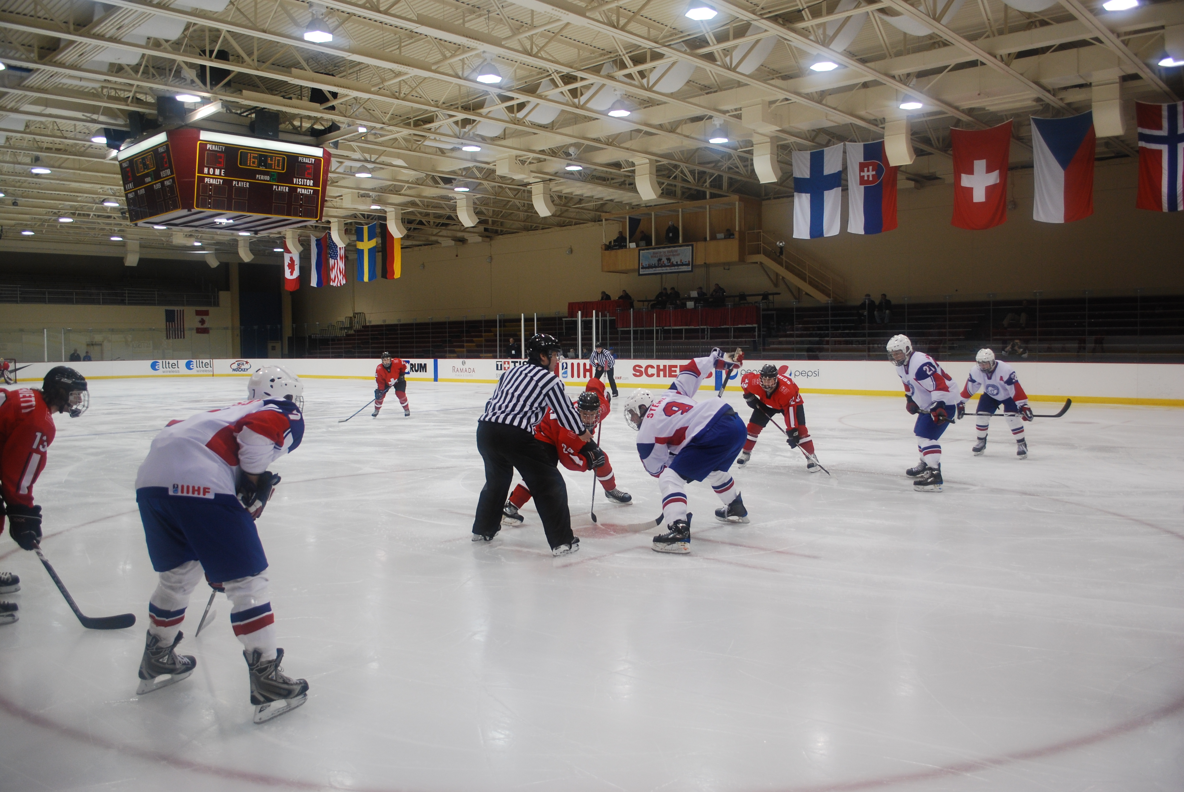 Switzerland - Norway match, 2009 IIHF World U18 Championship.